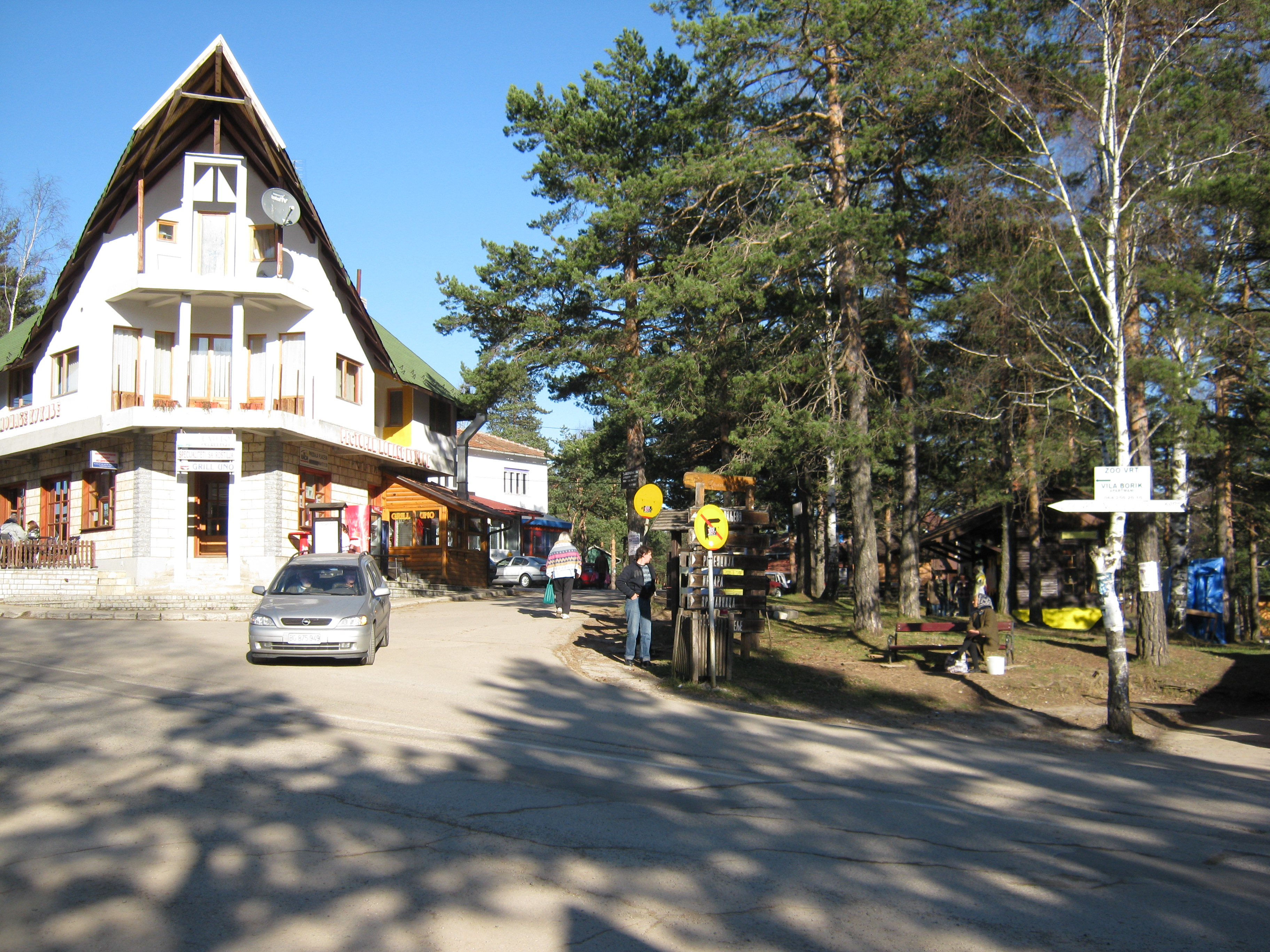 The main crossroads in Divčibare